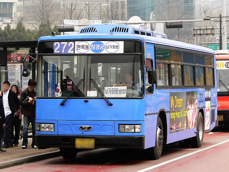 Seoul City Bus No. 272.